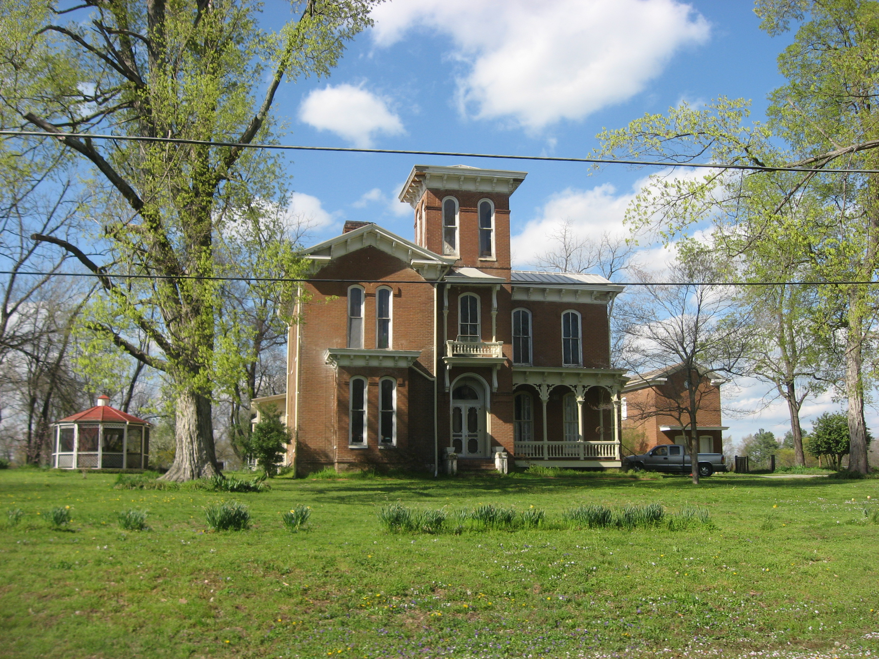 Front of the Jesse Whitesell House, located on Kentucky Route 116 (W. State Line Street) west of Fulton on the southern border of Fulton County, Kentucky, United States. Built in 1871, it is listed on the National Register of Historic Places.